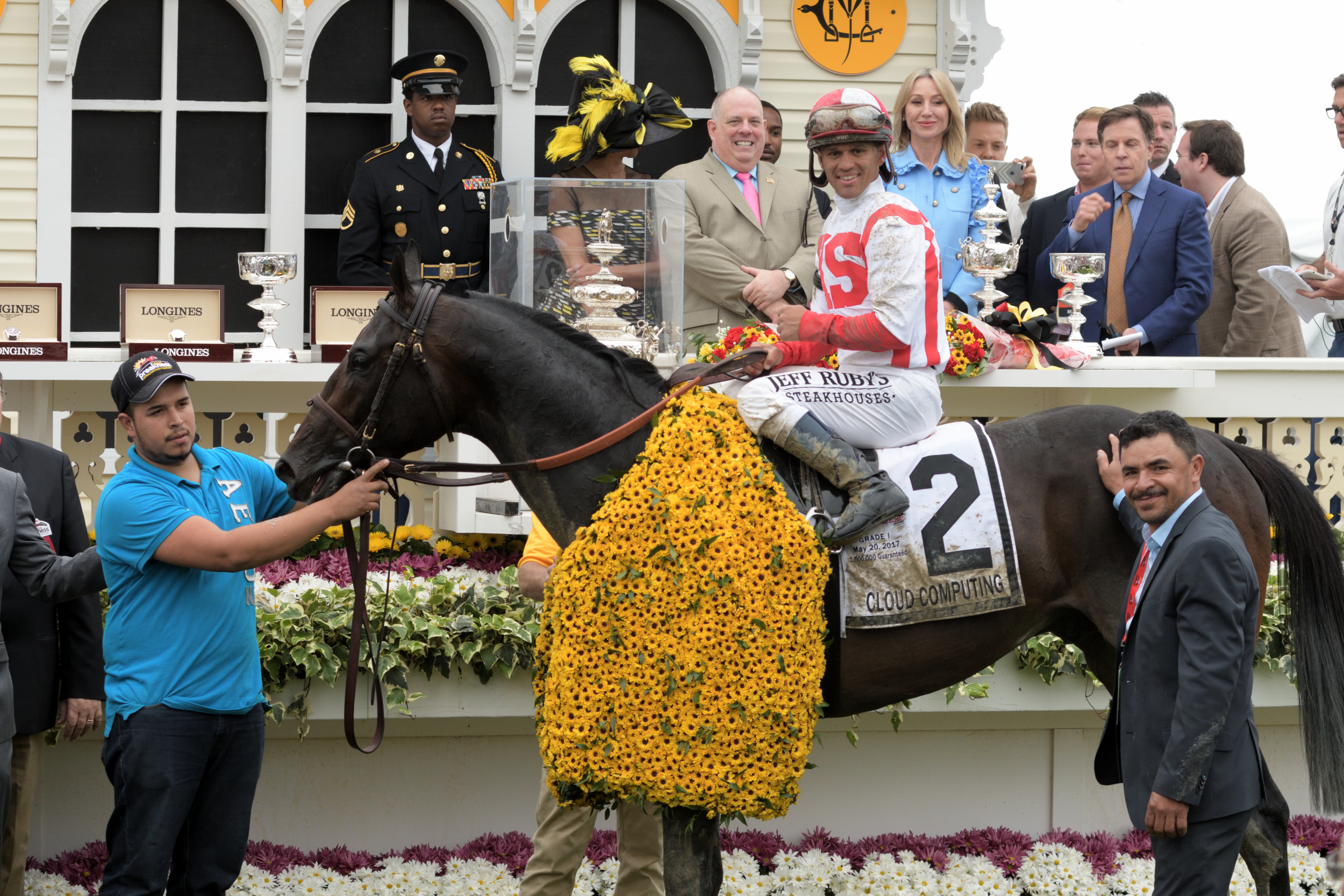 Governor Hogan, Lt. Governor Rutherford, First Lady Yumi Hogan Attend The 142nd Preakness by staff at Pimlico Race Track 5201 Park Heights Ave Baltimore, Maryland 21215 Photos from the 2017 Preakness Stakes. Governor Hogan, Lt. Governor Rutherford, First Lady Yumi Hogan attend the 142nd Preakness. Photos were taken by staff at Pimlico Race Track (5201 Park Heights Ave Baltimore, Maryland) on May 20, 2017.